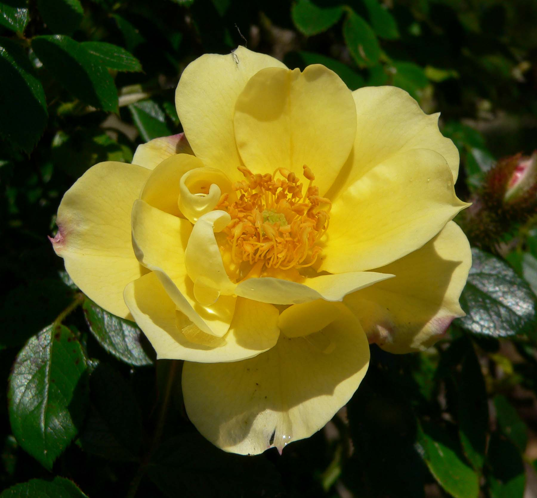 Photo of Rosa 'Lemon Delight' at the San Jose Heritage Rose Garden